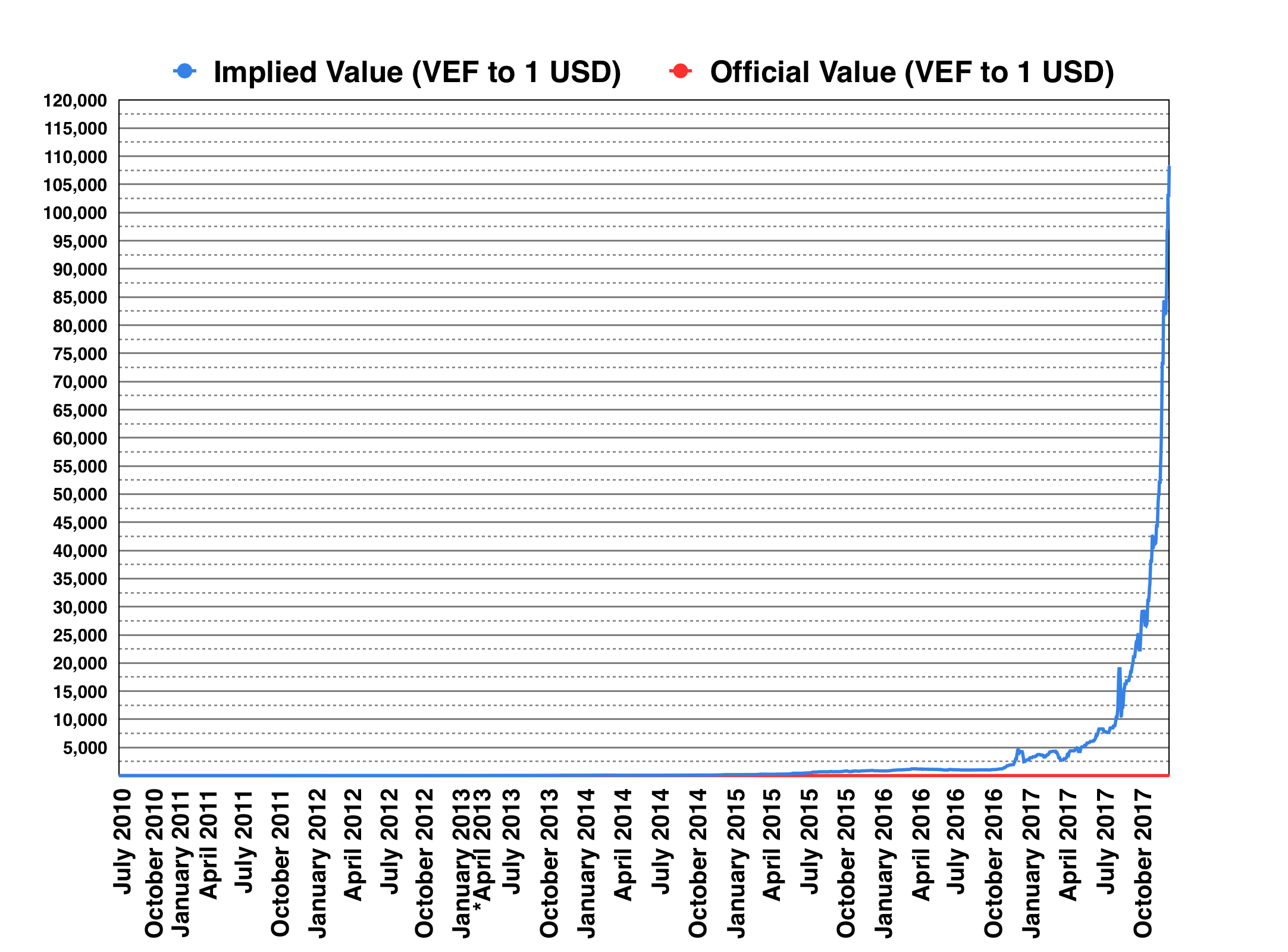 The parallel exchange rate of the Venezuelan bolívar (since 23 June 2016, this value is based on private transactions made in the city of Caracas) versus the strongest official rate the government sets it to. Data comes from DolarToday. March/April 2013 data is missing from sources.